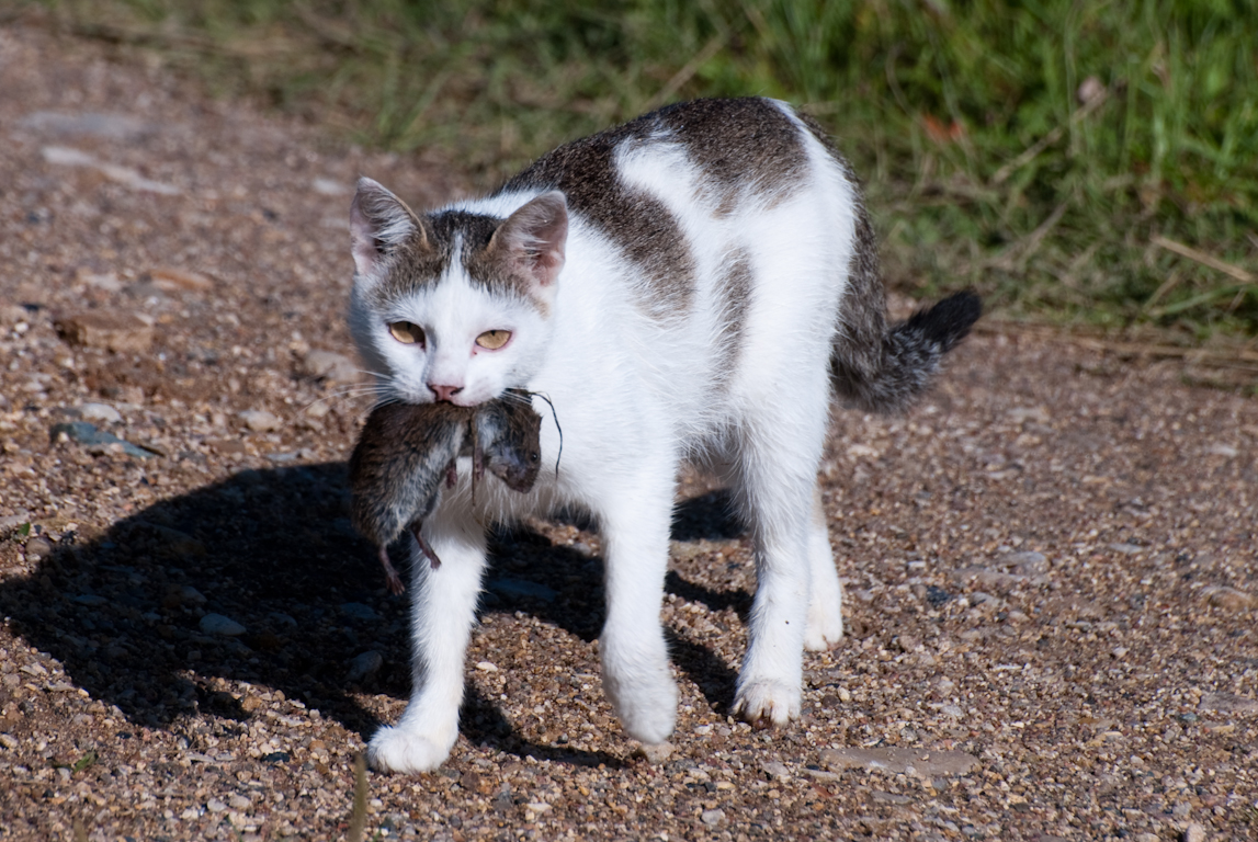 кошка и мышка